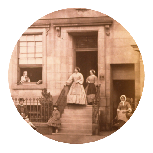 Home and family of Scottish pioneering photographer Dr. John Adamson, a physician, lecturer of St Andrews.